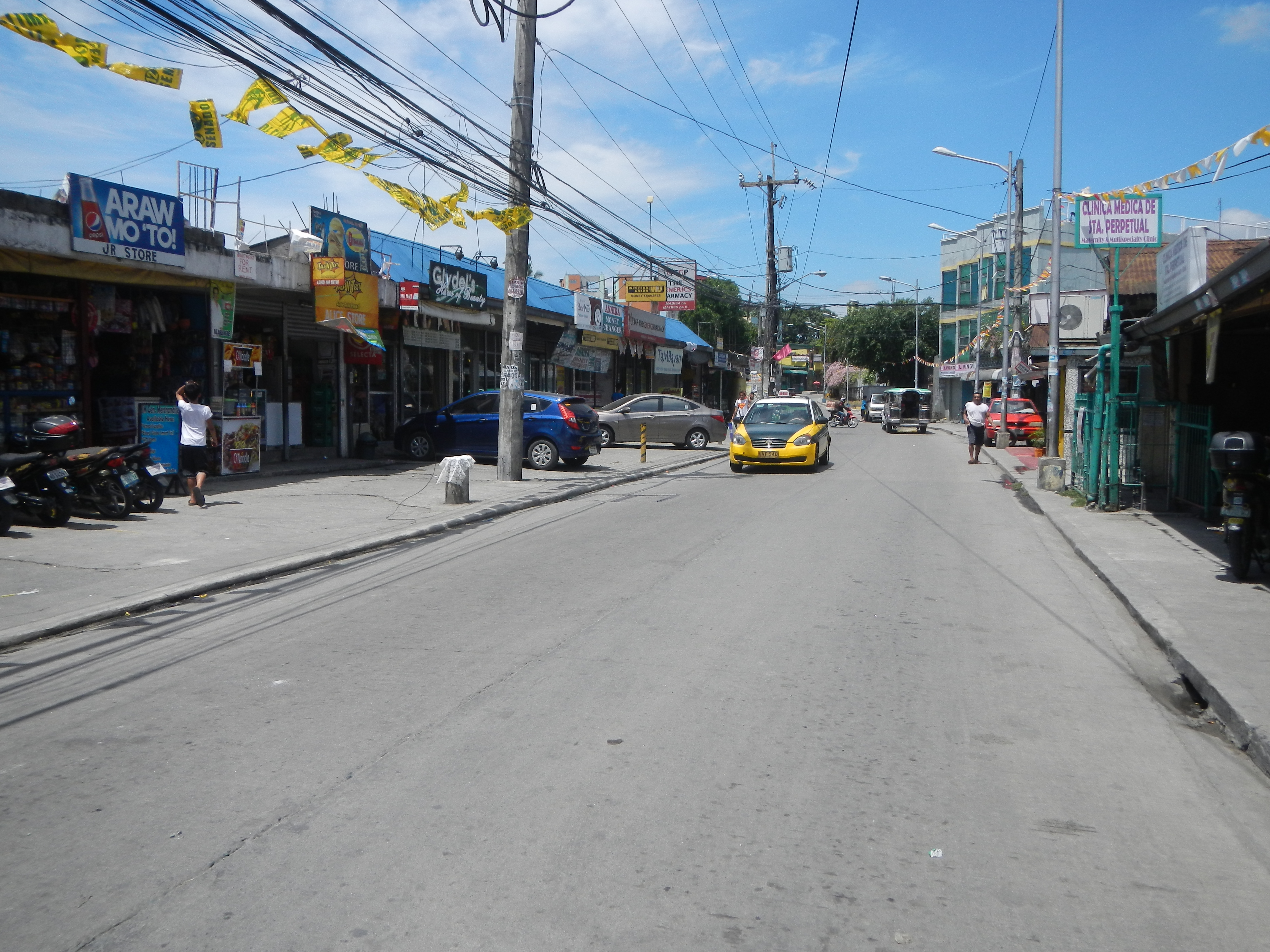 Baesa Road, Caloocan City fome Baesa Road, Quezon City in List of barangays of Metro Manila Legislative districts of Caloocan District 2, Barangays of Caloocan Barangays 158 (Baesa, Eternal Gardens Memorial Park), 159 (Baesa), 160 (Libis Baesa), 161 (Libis Reparo), 162 & 163 (Santa Quiteria), Caloocan City (accessed from Quirino Highway (Balongbato-Camachile-Baesa, District 6, Quezon City section), of the Quirino Highway from North Luzon Expressway, Radial Road 8.